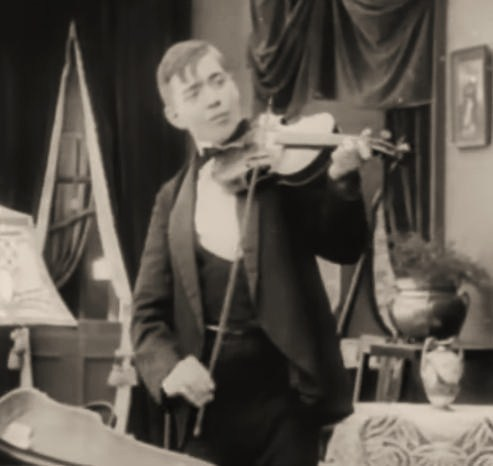 cinematographer Karl Brown in Home, Sweet Home - cropped screenshot